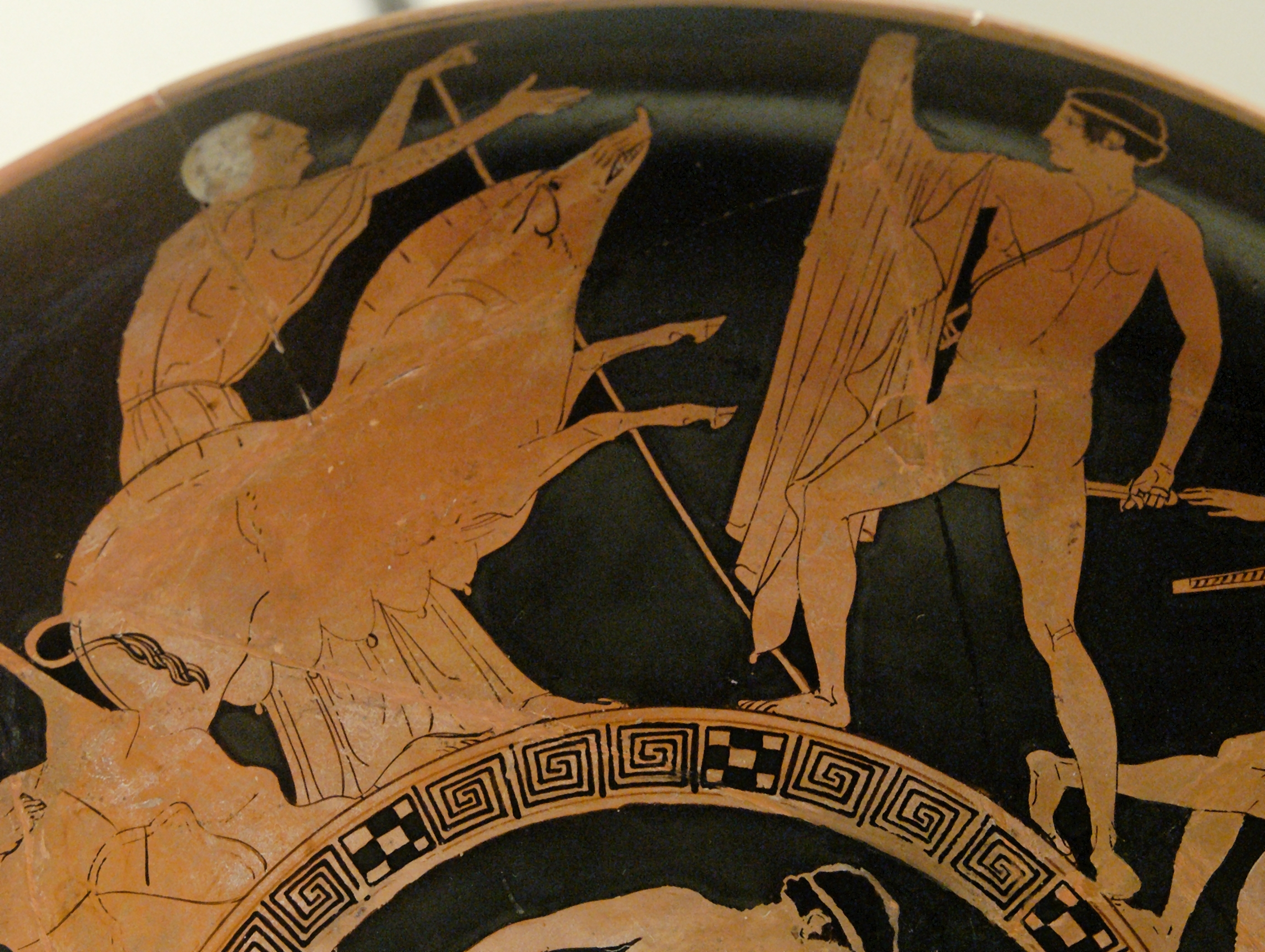 Theseus fighting the Crommyonian Sow. Surround of the tondo of an Attic red-figured kylix, ca. 440-430 BC. Said to be from Vulci.